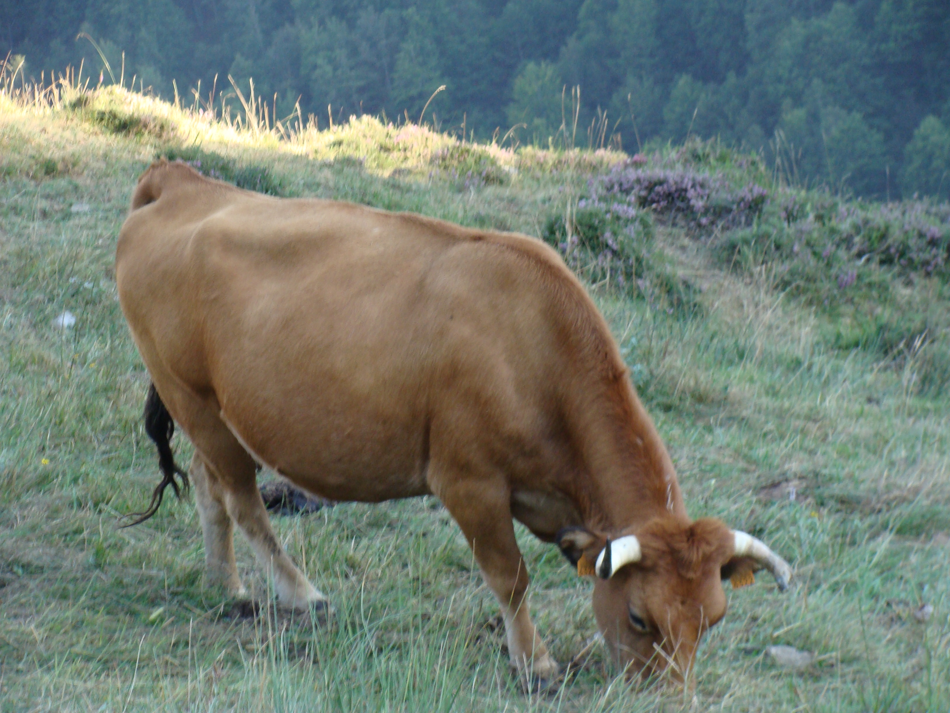 Bos taurus (cow), in Picos de Europa, Cantabria, Spain.